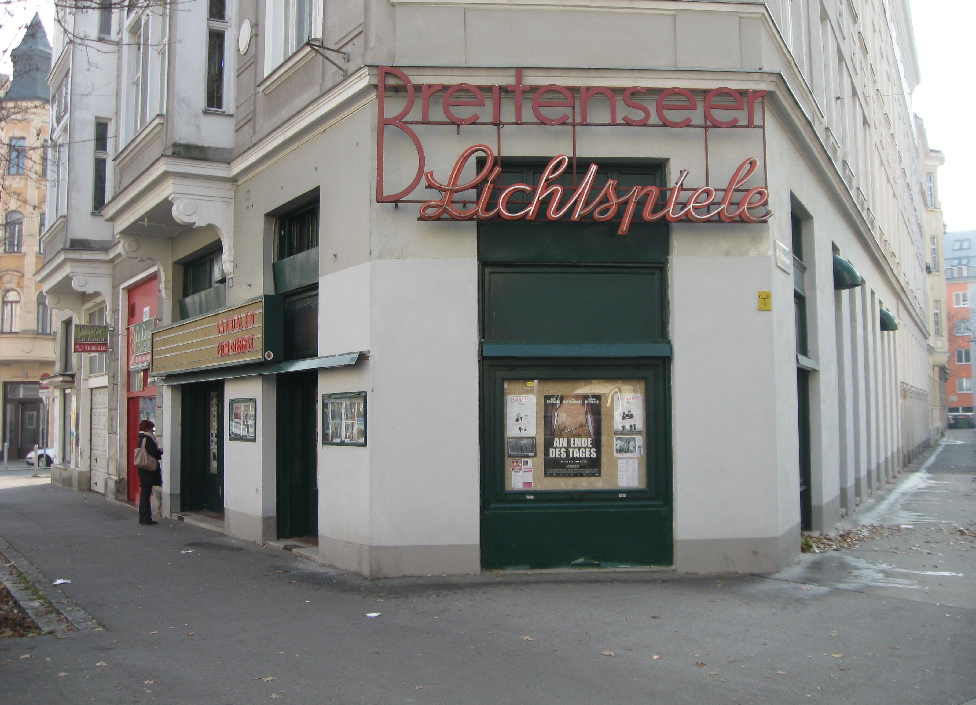 The Breitenseer Lichtspiele, one of the world's oldest still existing cinemas